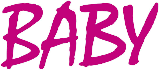 TV logo